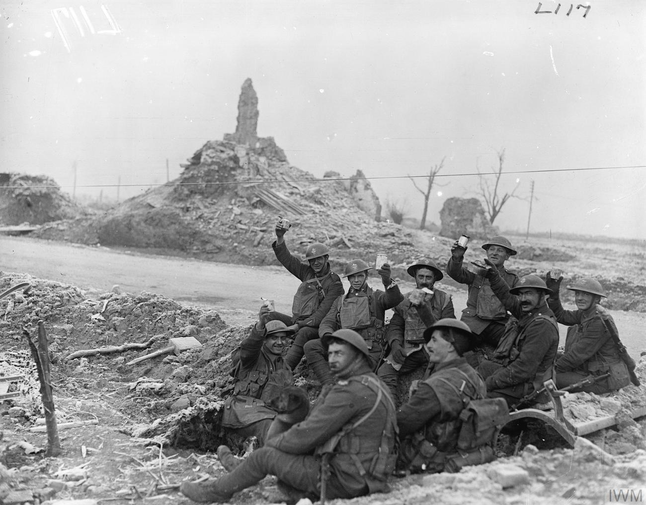 The British Army on the Western Front, 1914-1918 Men of a pioneer battalion of the West Yorkshire Regiment, possibly 21st (Service) Battalion (Wool Textile Pioneers), having a meal in a shell hole on the roadside near Ypres, 23 December 1917.